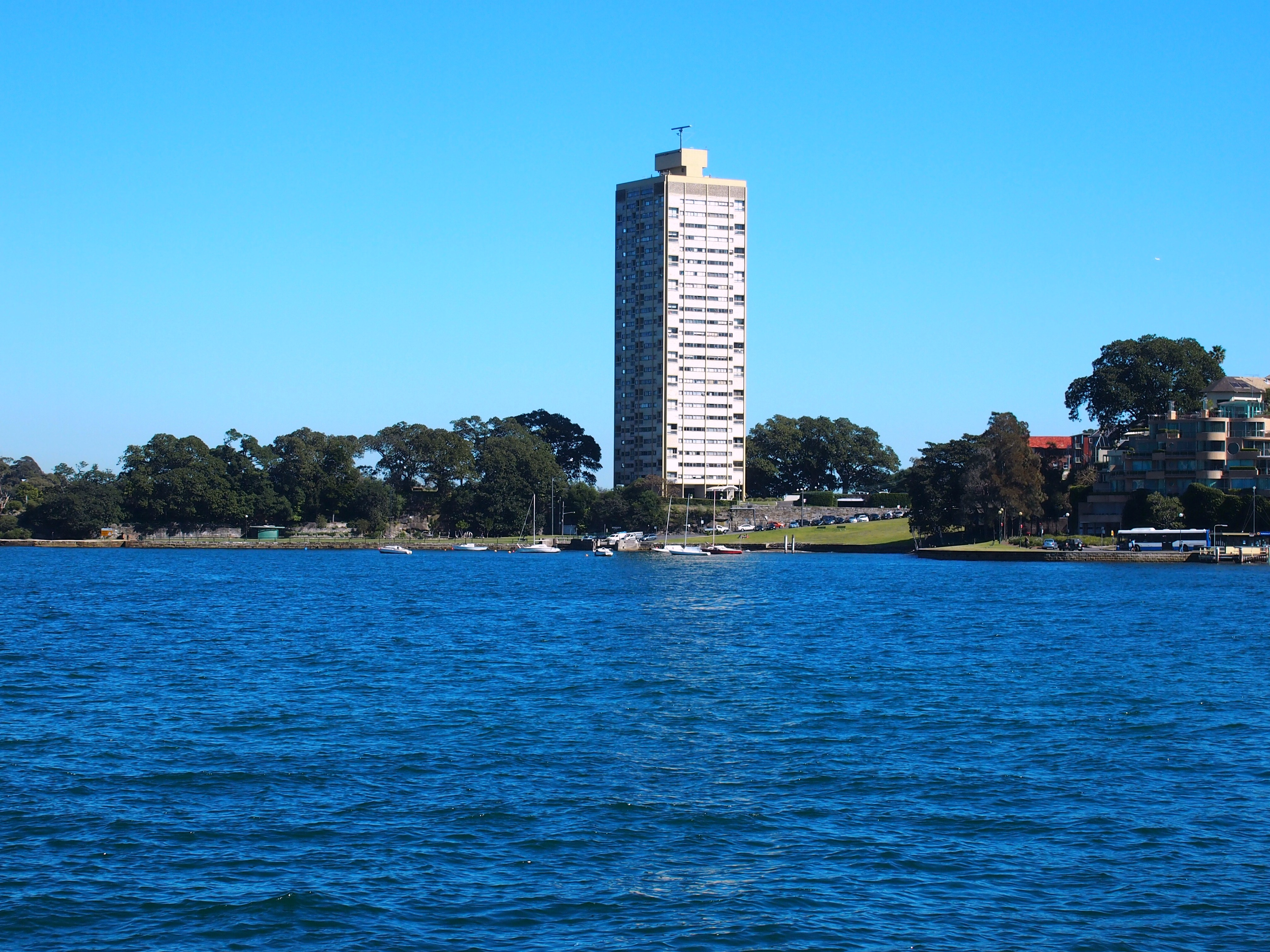 Blues Point Tower viewed from a ferry in September 2012